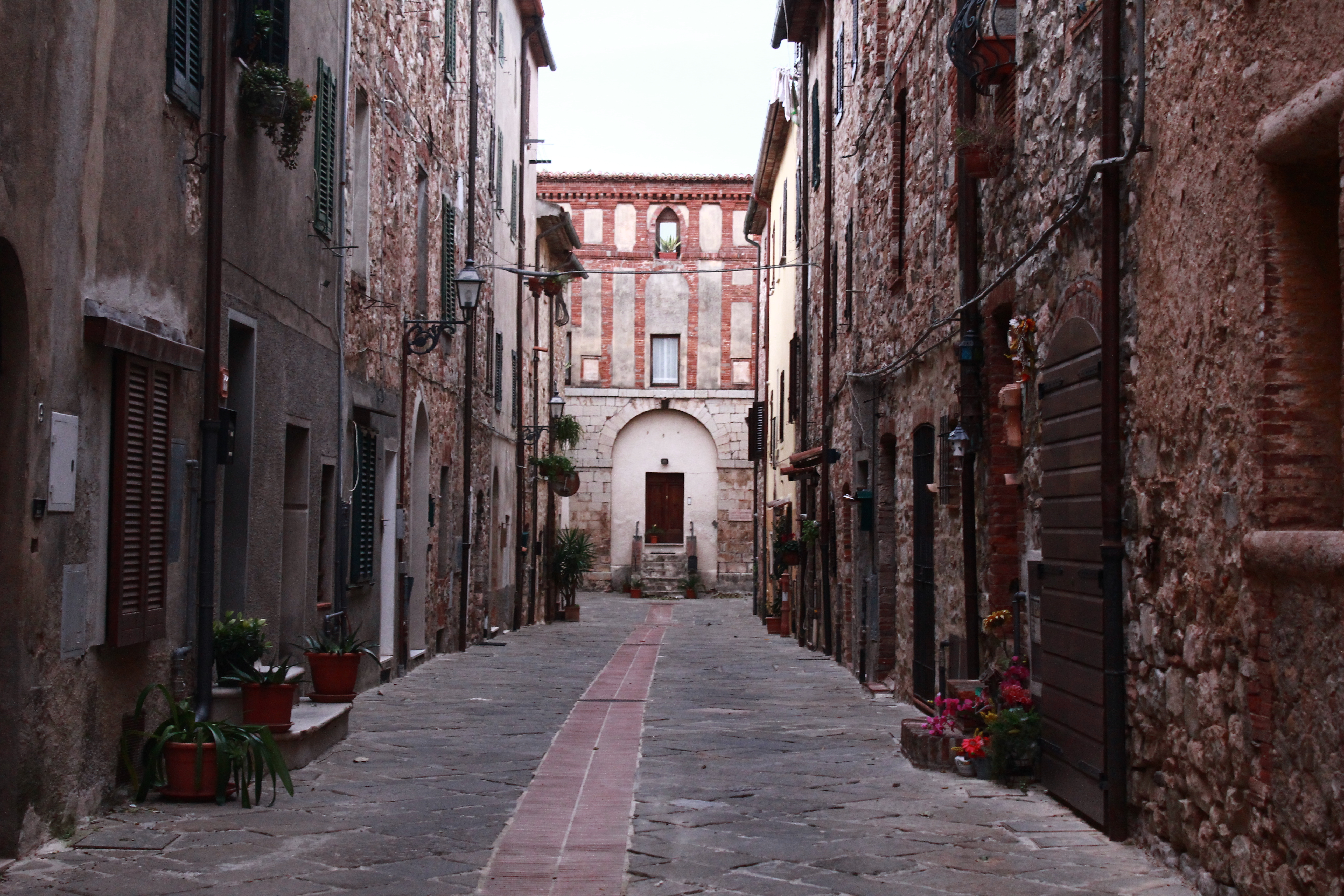 Canonica di San Biagio in Caldana, Grosseto, Tuscany